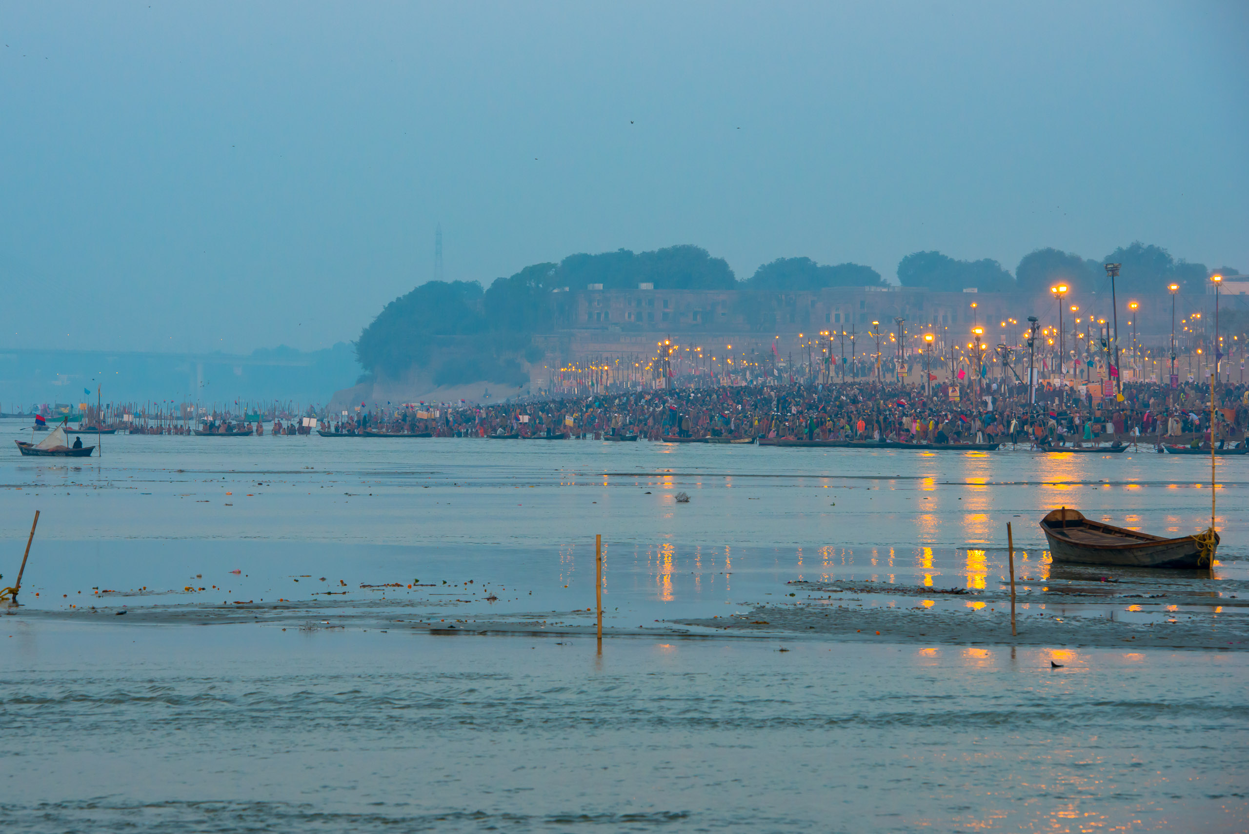 Millions of Pilgrims take a hoy bath at Sangam. Paush Prunima, Kumbh Mela 2013, Allahabad